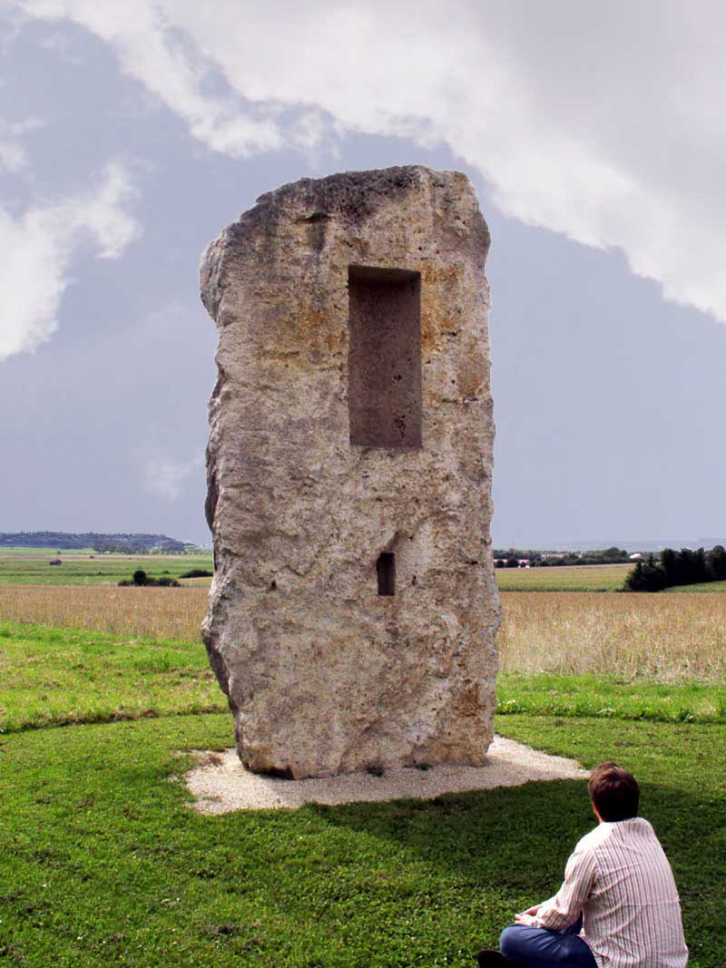 Skulpturenfeld Oggelshausen Bildhauersymposium 2000 Uli Gsell, Vom Morgen bis zum Abend